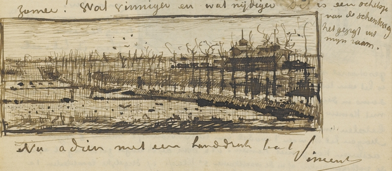 Vincent van Gogh - The Schenkweg (F-, JH93), sketch in letter 200, 1882, Van Gogh Museum, Amsterdam